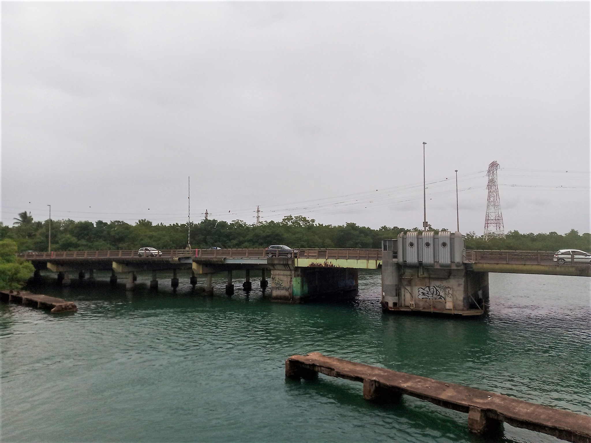 Bridge linking the island of Basse-Terre and the island of Grande-Terre